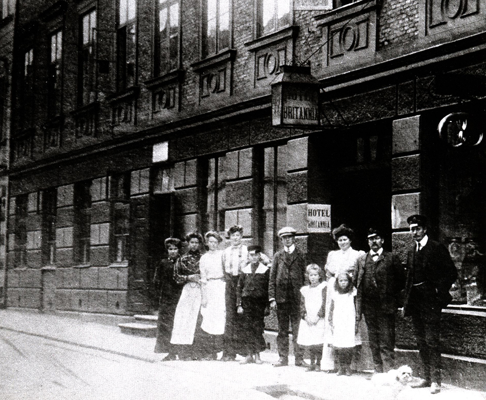 Hotel Britannia, Postgatan, Göteborg. Proprietor Carl E. Bengtsson with staff.